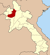 Map of Laos highlighting the province Oudomxai - course of the border since 1995